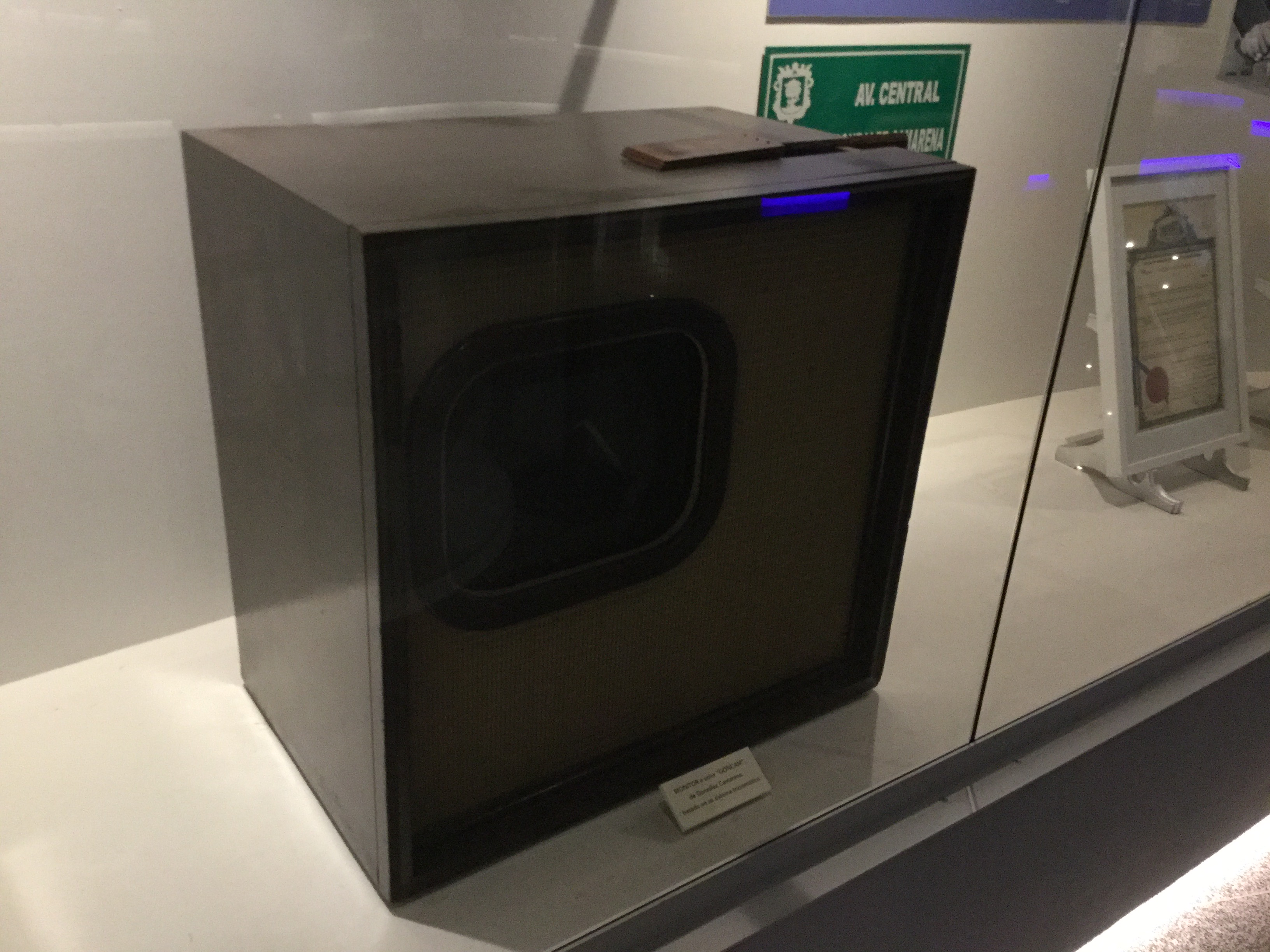 TV for Chromoscopic adapter for television equipment, pioneer color system for broadcasting, sistema de transmisión televisiva pionero a color. Radio and TV Museum, Palacio de la Cultura y la Comunicación, Zapopan, Jalisco.